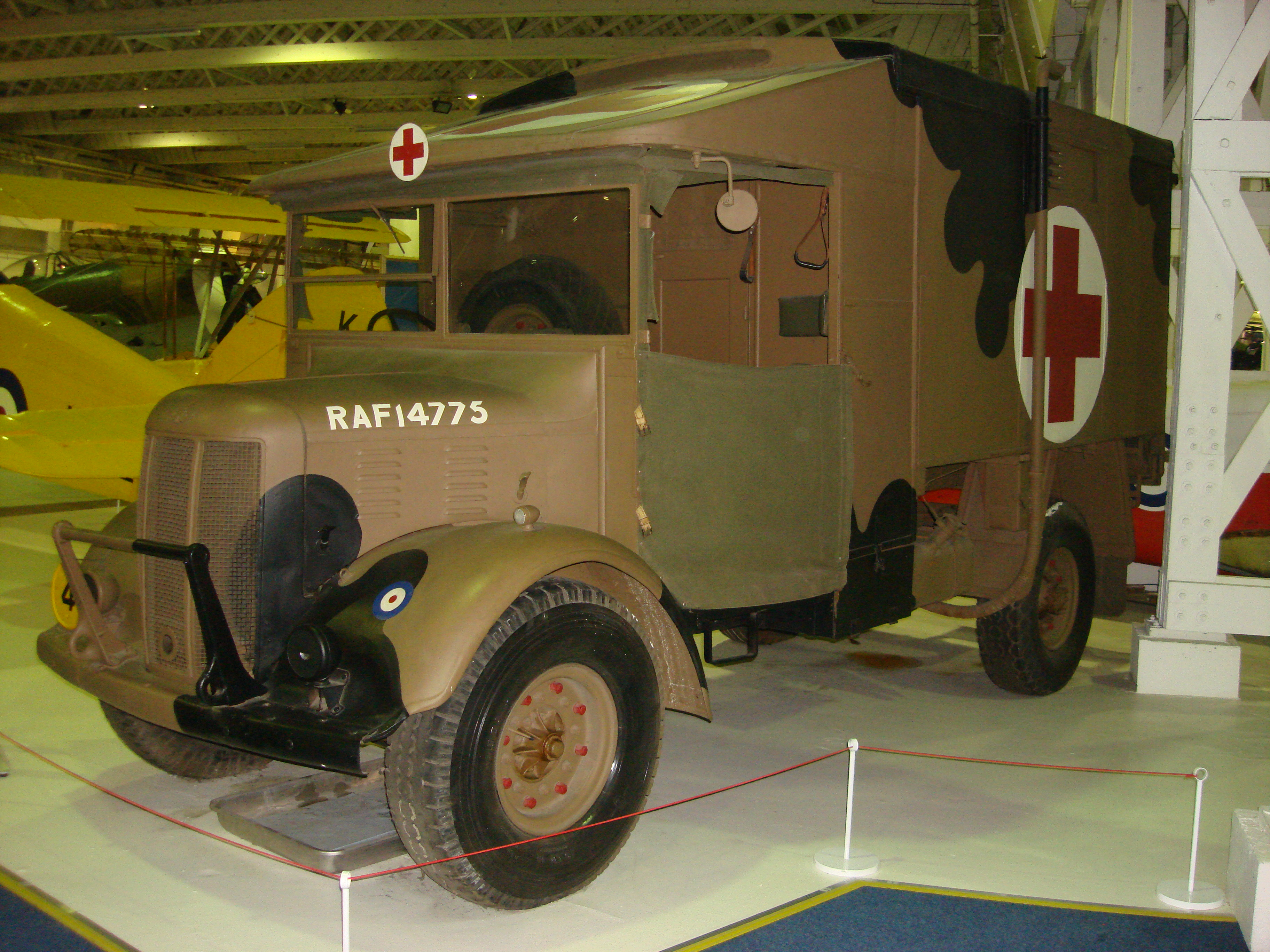 Austin K2 Ambulance at the RAF Museum London